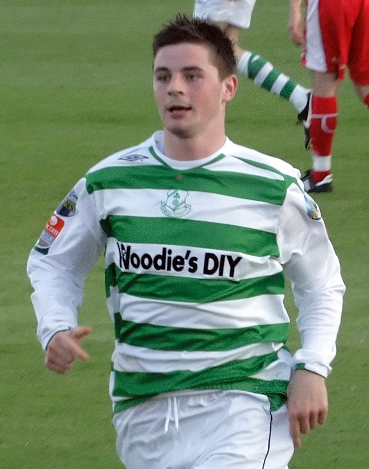 Padraig Amond, Shamrock Rovers 2008